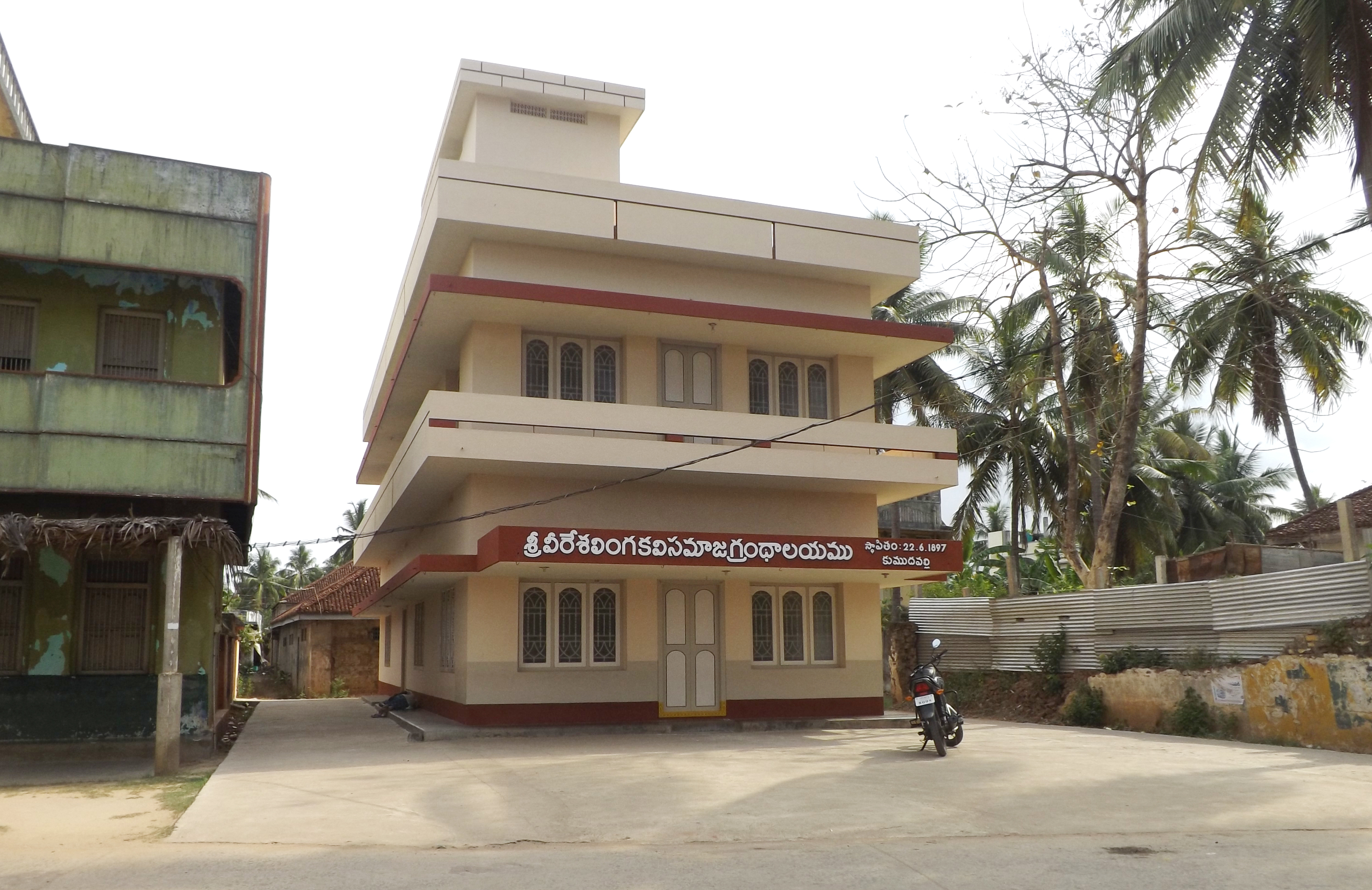 Sri Veeresalinga Kavi Samaja Library of Kumudavalli, Andhrapradesh